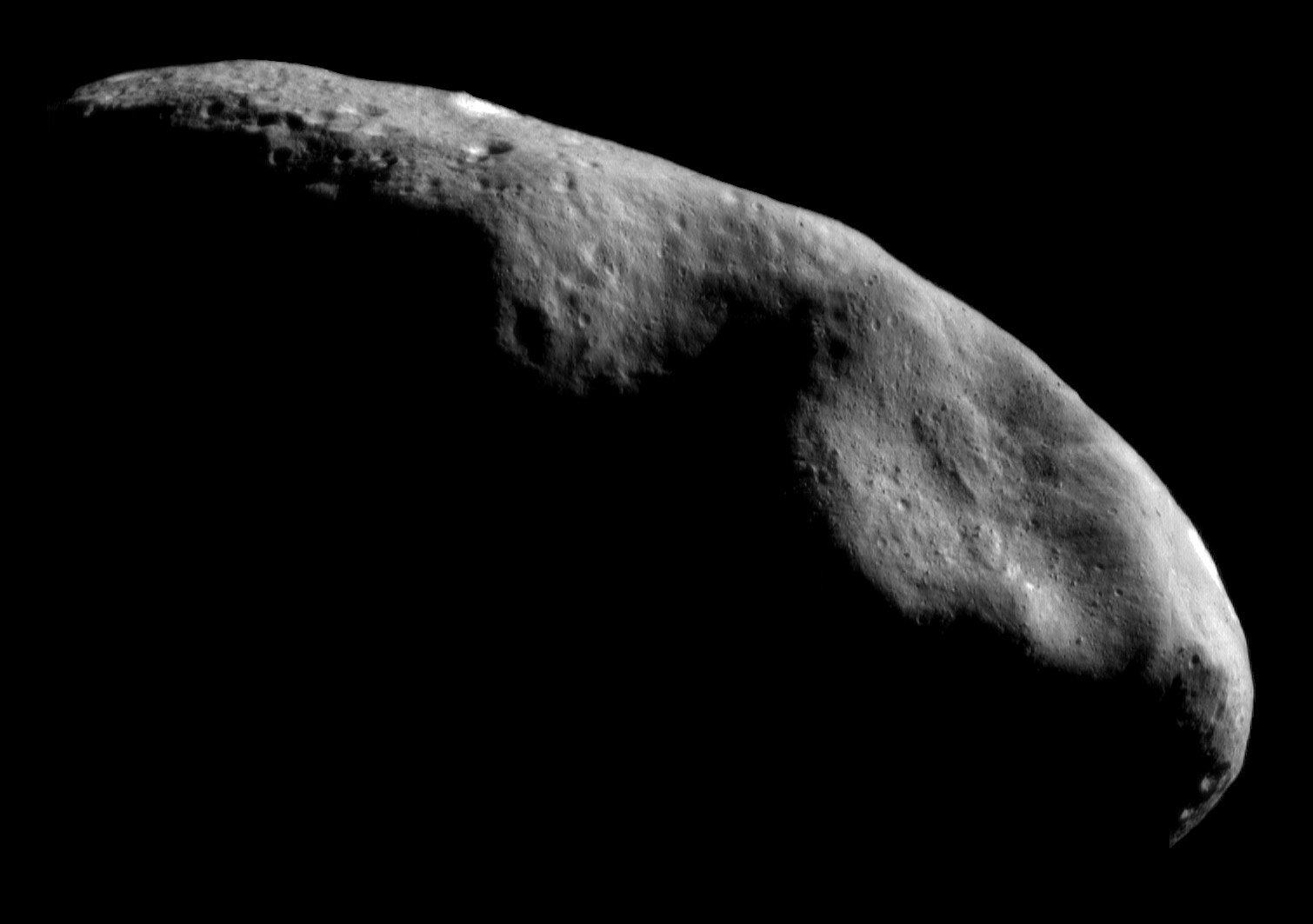 This mosaic of NEAR Shoemaker images, taken on December 3, 2000, from an orbital altitude of 200 kilometers (124 miles), provides an overview of the eastern part of the asteroid's southern hemisphere. In this view, south is to the top and the terminator (the imaginary line dividing day from night) lies near the equator. The conspicuous depression just above the center of the frame is the saddle-shaped feature Himeros.